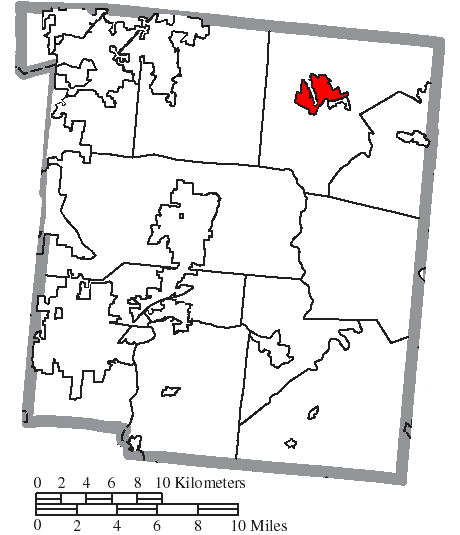 Map of the municipal and township boundaries of Warren County, Ohio, United States, as of the 2000 census, with the location of the village of Waynesville highlighted. Township borders are shown only in unincorporated areas in order to differentiate incorporated and unincorporated areas more clearly.